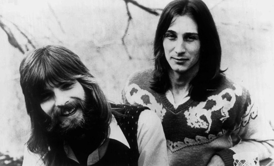 Publicity photo of Kenny Loggins and Jim Messina.